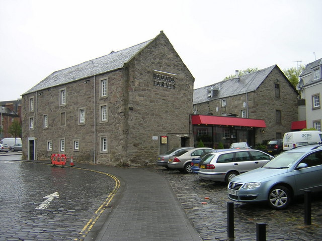 Jarvis Ramada Mills Hotel